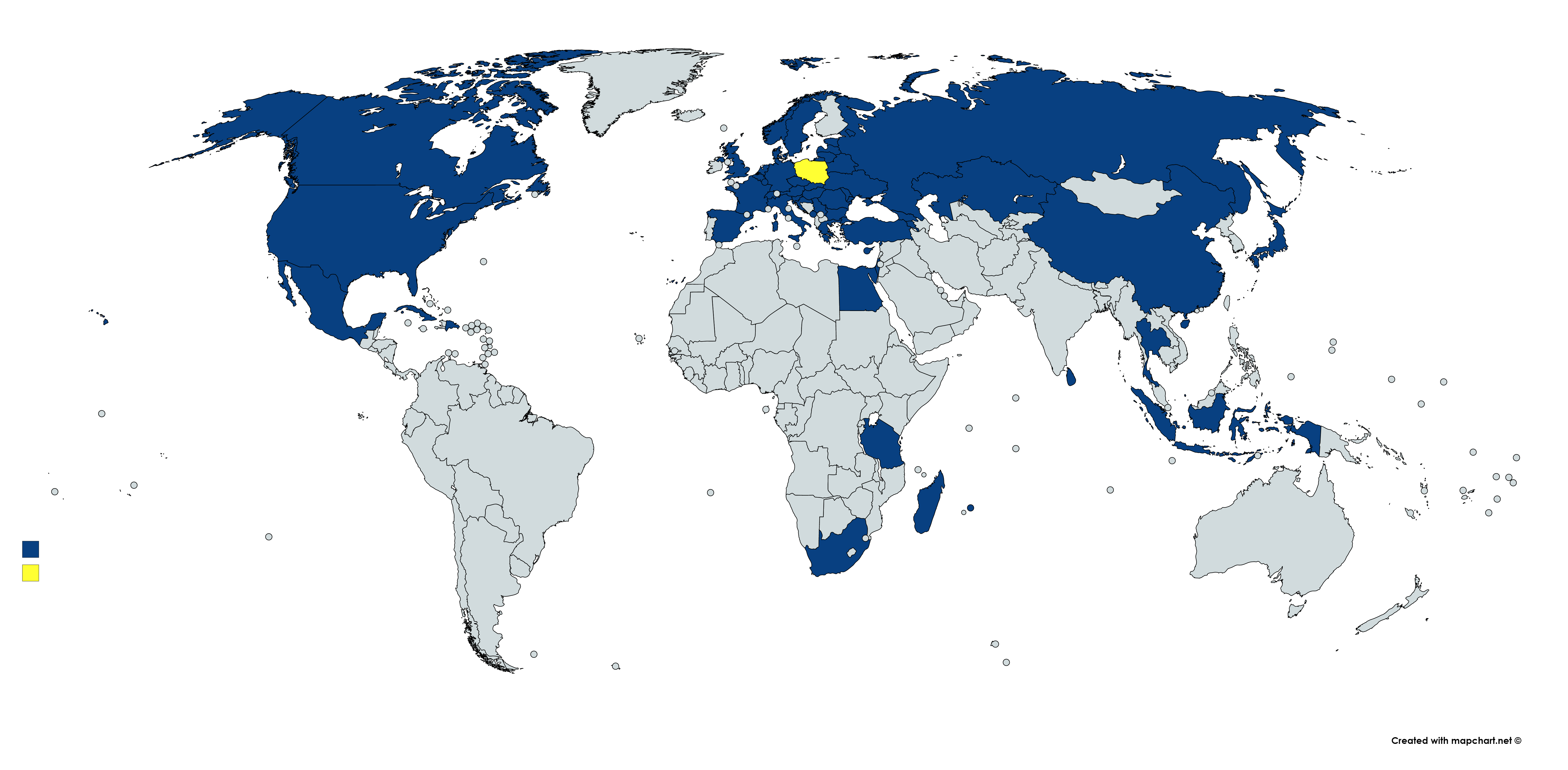 Destinations of LOT Polish Airlines, 2017